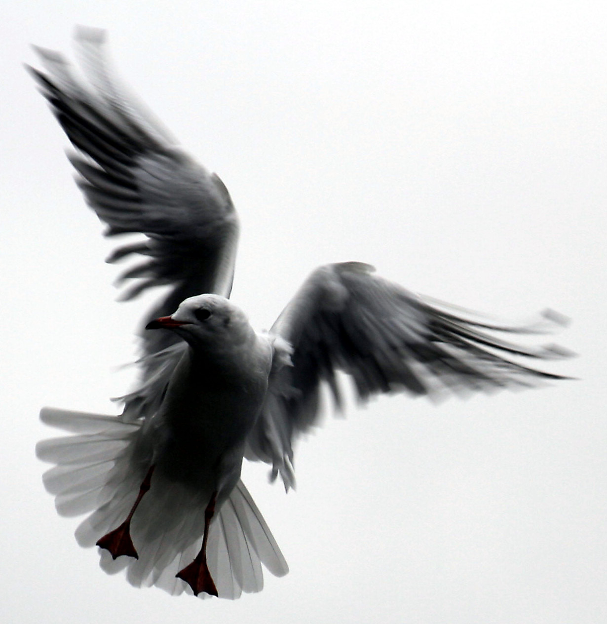 Highest Explore Position #378 ~ On October 17th 2007. Black-headed Gull - Hyde Park - London, England - October 16th 2007